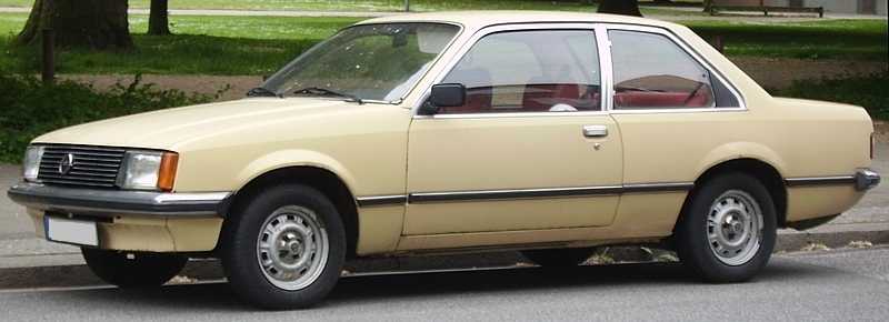 An Opel Rekord E 1